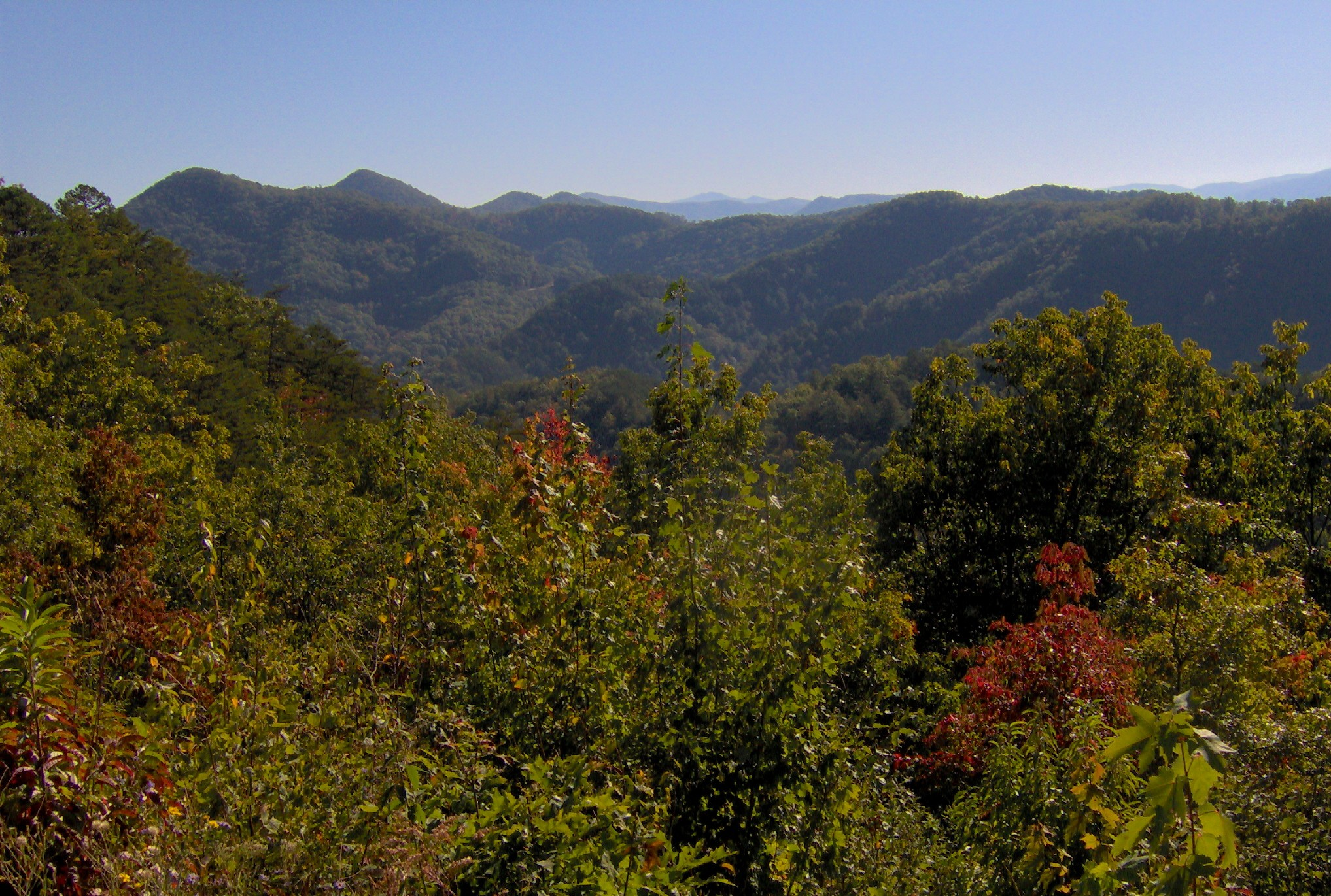 The view southeast from an overlook along the Bates Mountain Section (8F) of Foothills Parkway near Walland, Tennessee, in the southeastern United States. This section of the parkway won't officially open until the completion of the adjacent Section 8E, but park officials allowed vehicular access for the October 18-19, 2008 weekend.